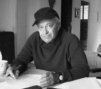 Photo of Stephen Vizinczey